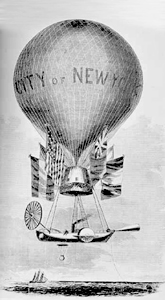 Thaddeus S. C. Lowe's gas balloon City of New York, built in 1859 at Hoboken, New Jersey in which Lowe proposed to make the trans-Atlantik voyage. Diameter 130 feet, height from boat to valve 200 feet, gas capacity 725,000 cubic feet, lifting power 22 1/2 tons, gondola accomodation capacity 6 persons, equipment included a Francis metallic lifeboat, named Leontine in honor to Mrs. Lowe, suspended under the gondola by two fixed ladders and carrying hand-driven propeller and sails, parachutes for dropping mail and messages, drags, anchors, buoys, sounding line and windlass, meteorological, nautical and navigating instruments, heating apparatus, lanterns, signal lights, and a large supply of provisions (See F. Stansbury Haydon: Military Ballooning During the Early Civil War, JHU Press, 2000, p. 157ff [1]).